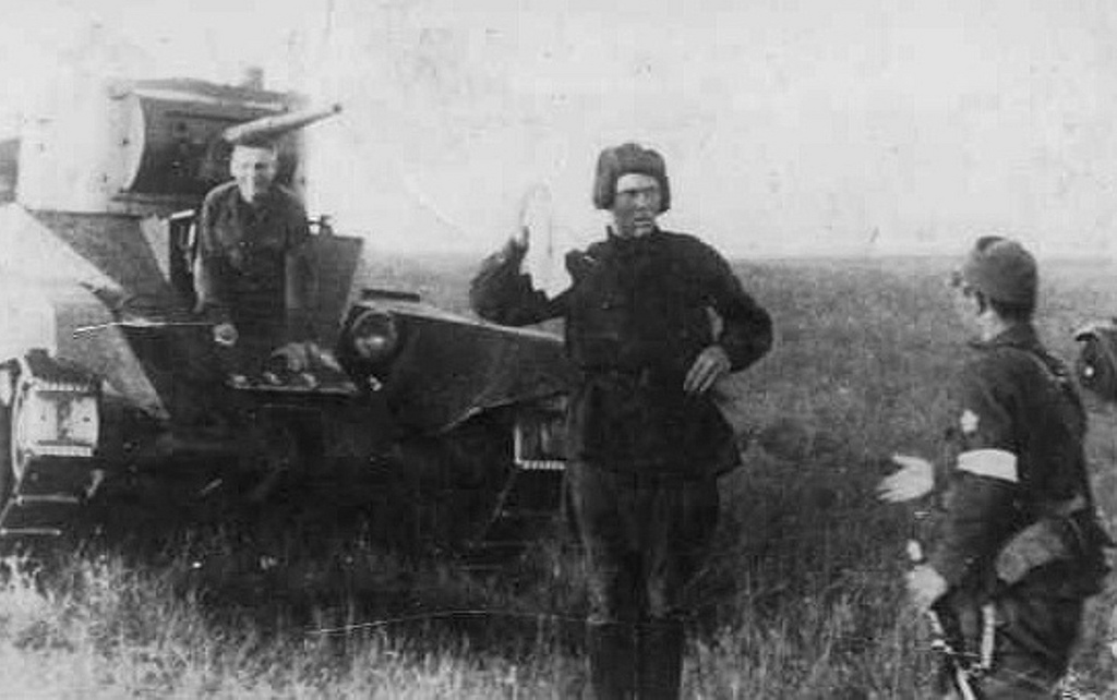 Battle of Khalkhin Gol-Soviet BT-5 tank surrendered (propaganda picture)